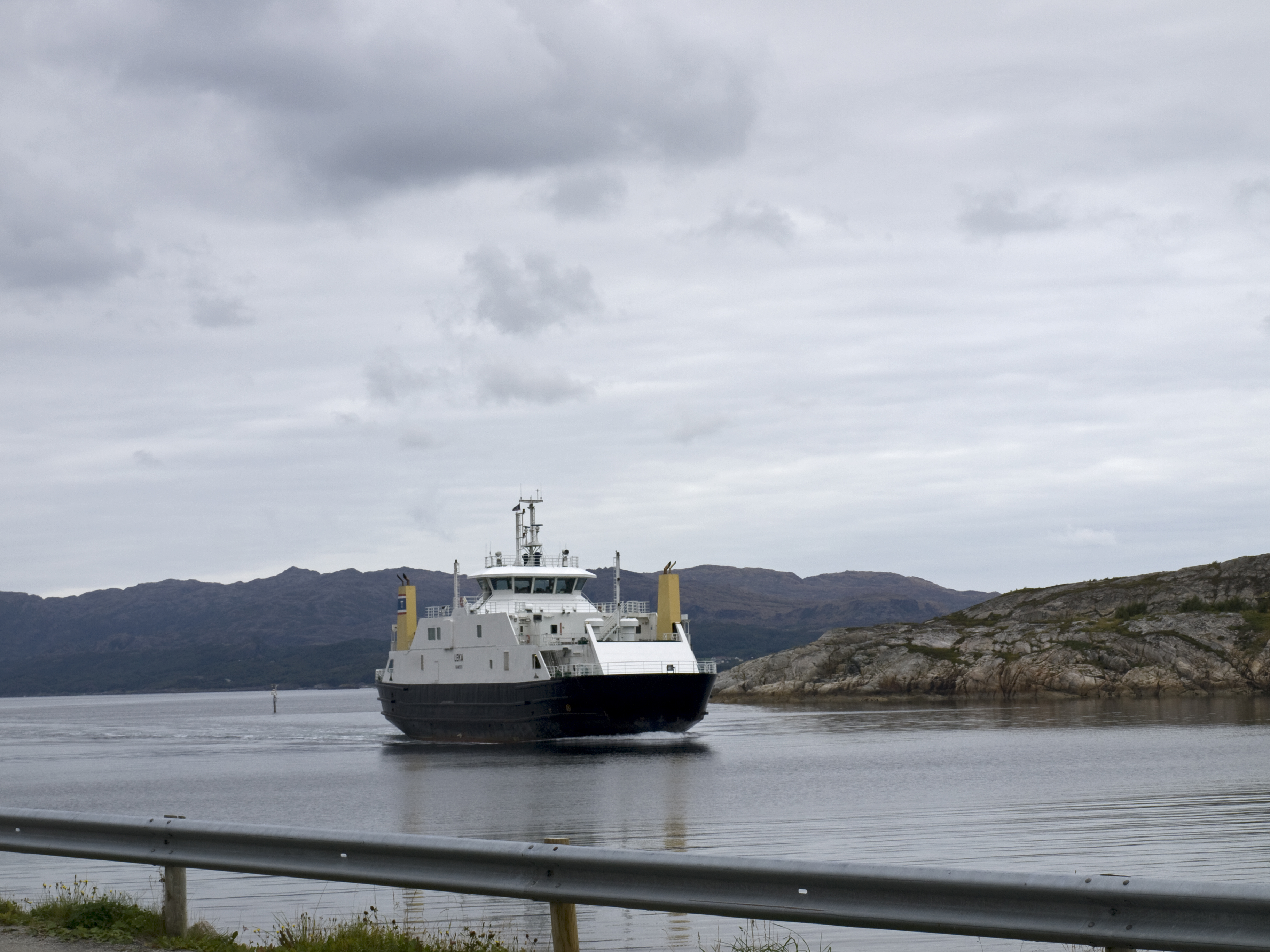 A ferry to Leka Island in Gutvik